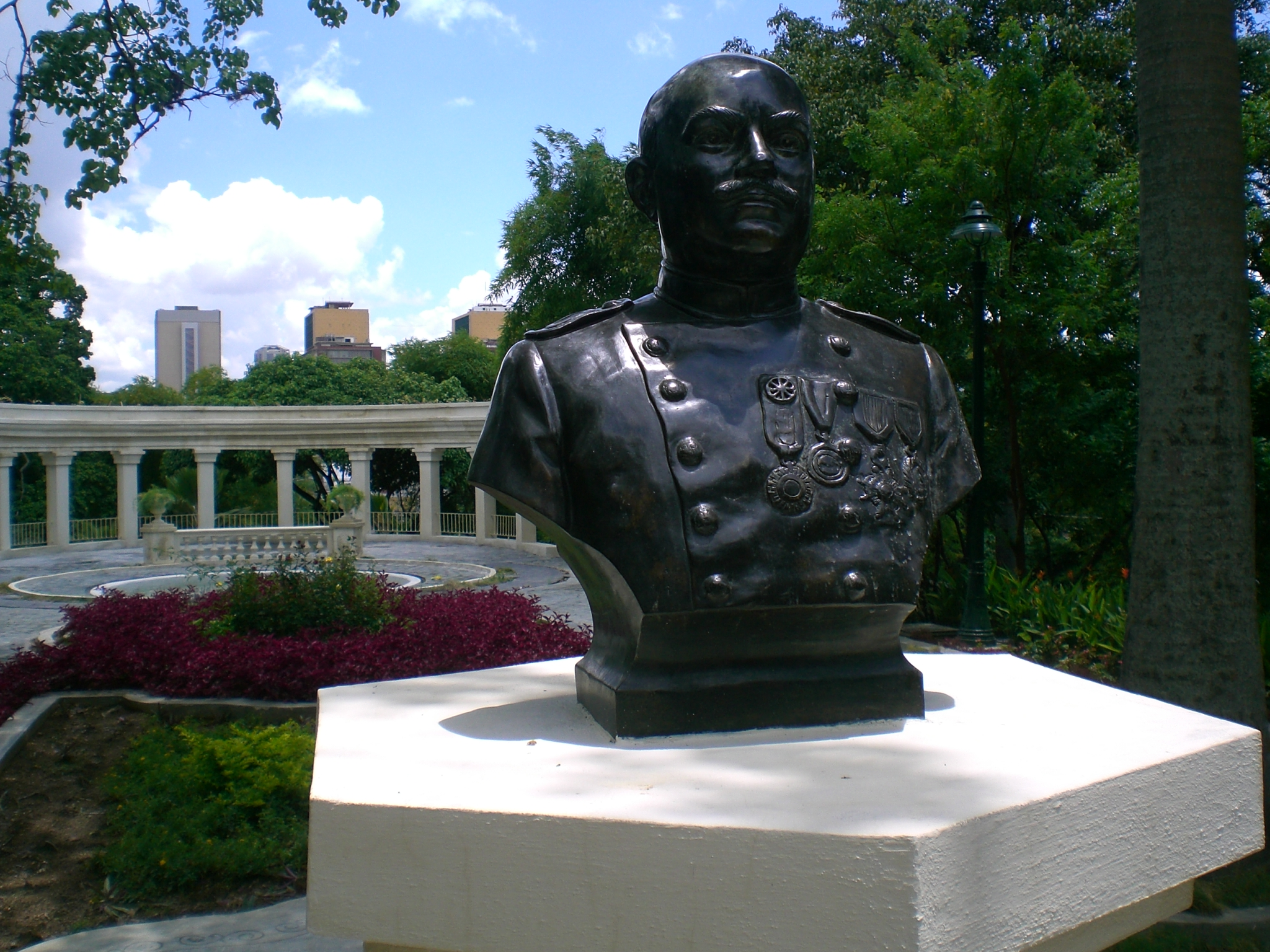 Bust of venezuelan composer Pedro Elías Gutiérrez in El Calvario Park - Caracas.